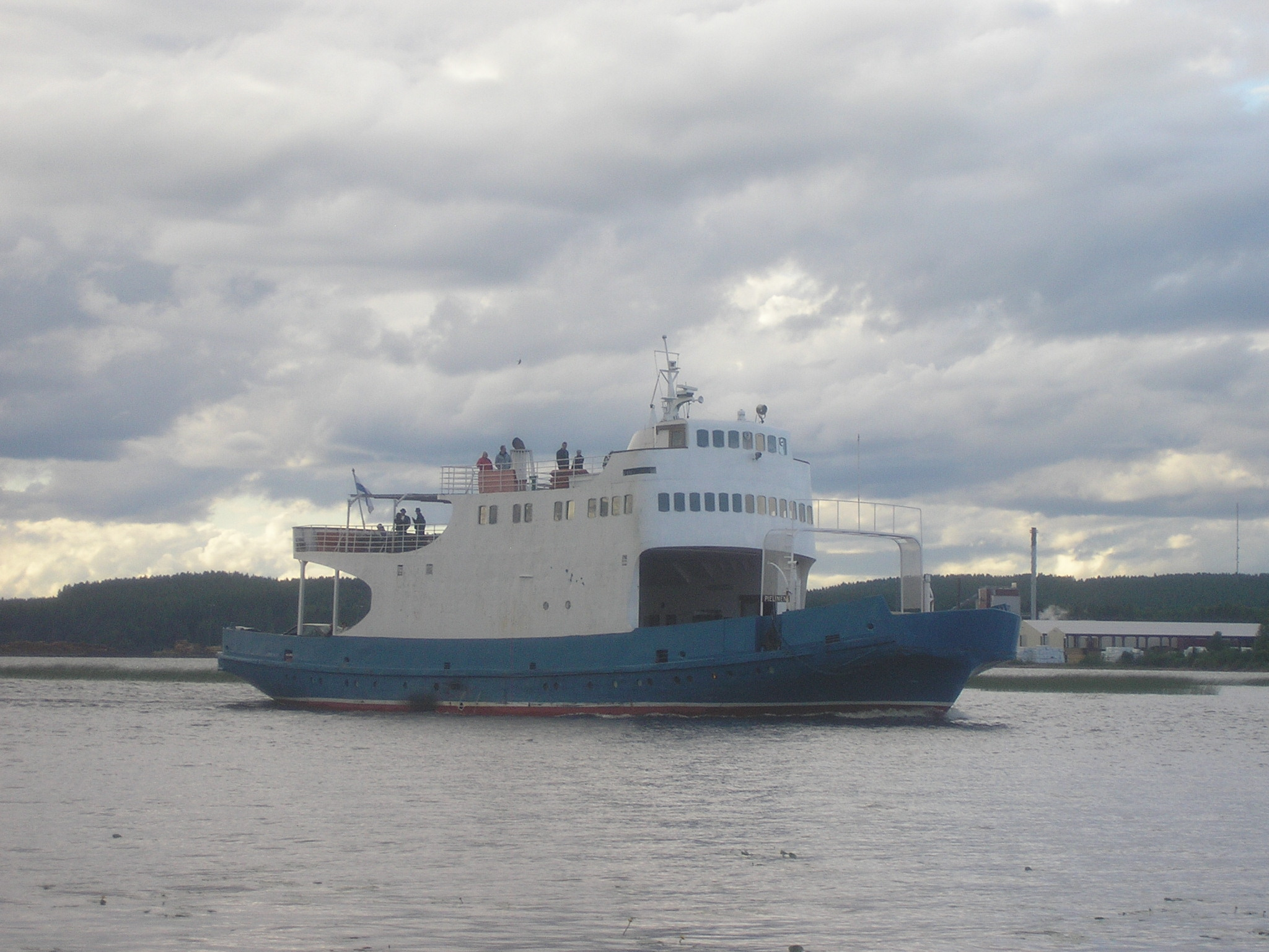 Ferry MF Pielinen in Lake Pielinen in Lieksa, Pielinen